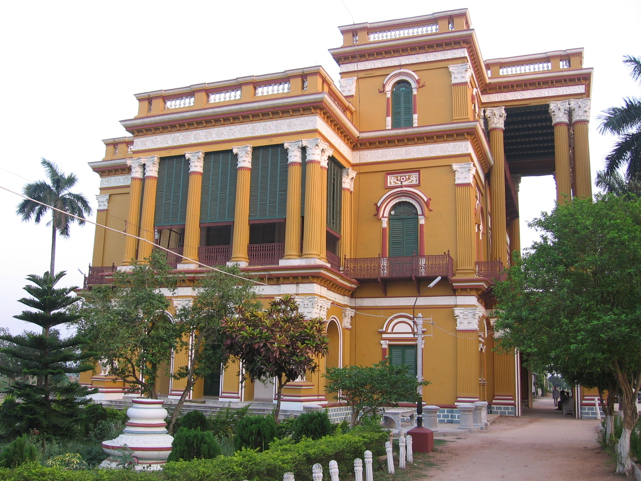 kathgola palace,berhampore.